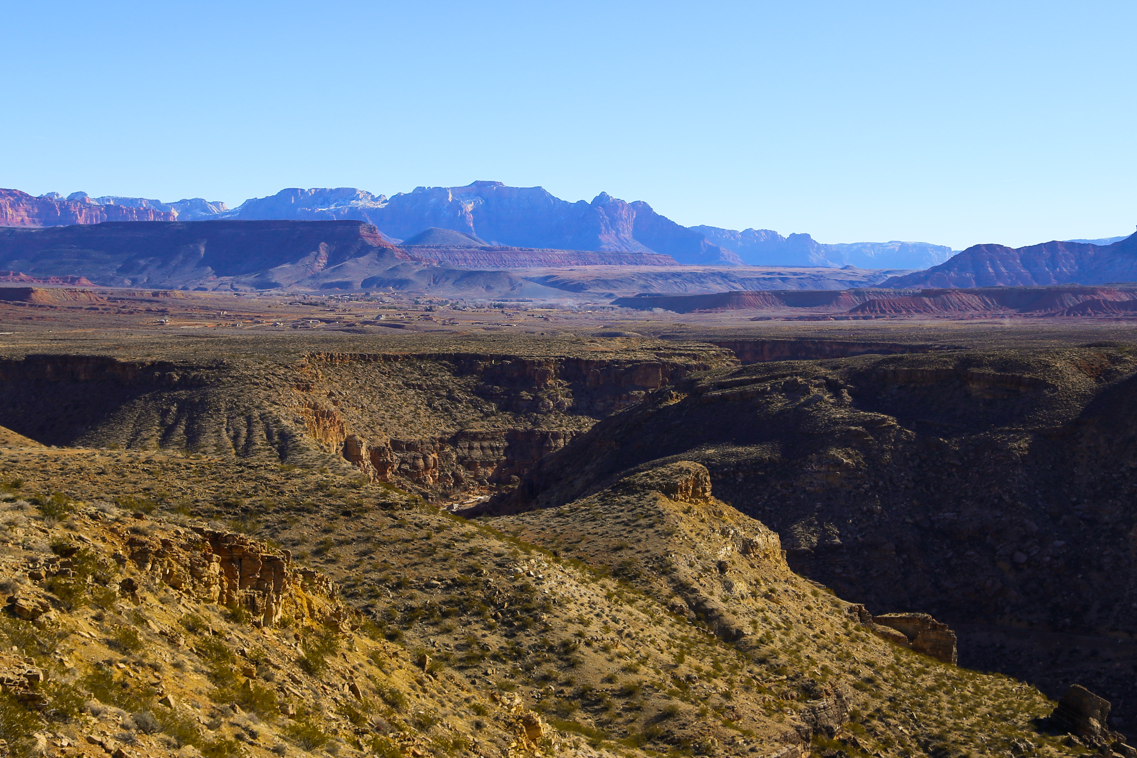 The Virgin River's winding, high desert route carves a jagged path through the western edge of the Colorado Plateau and sculpts the dramatic terrain outside of Zion National Park. From the La Verkin Overlook road, some of Zion's most prominent features - The Sundial, The West Temple, and Mt. Kinesava - define the left horizon. [Canon 6d / 24-105mm f/4L]